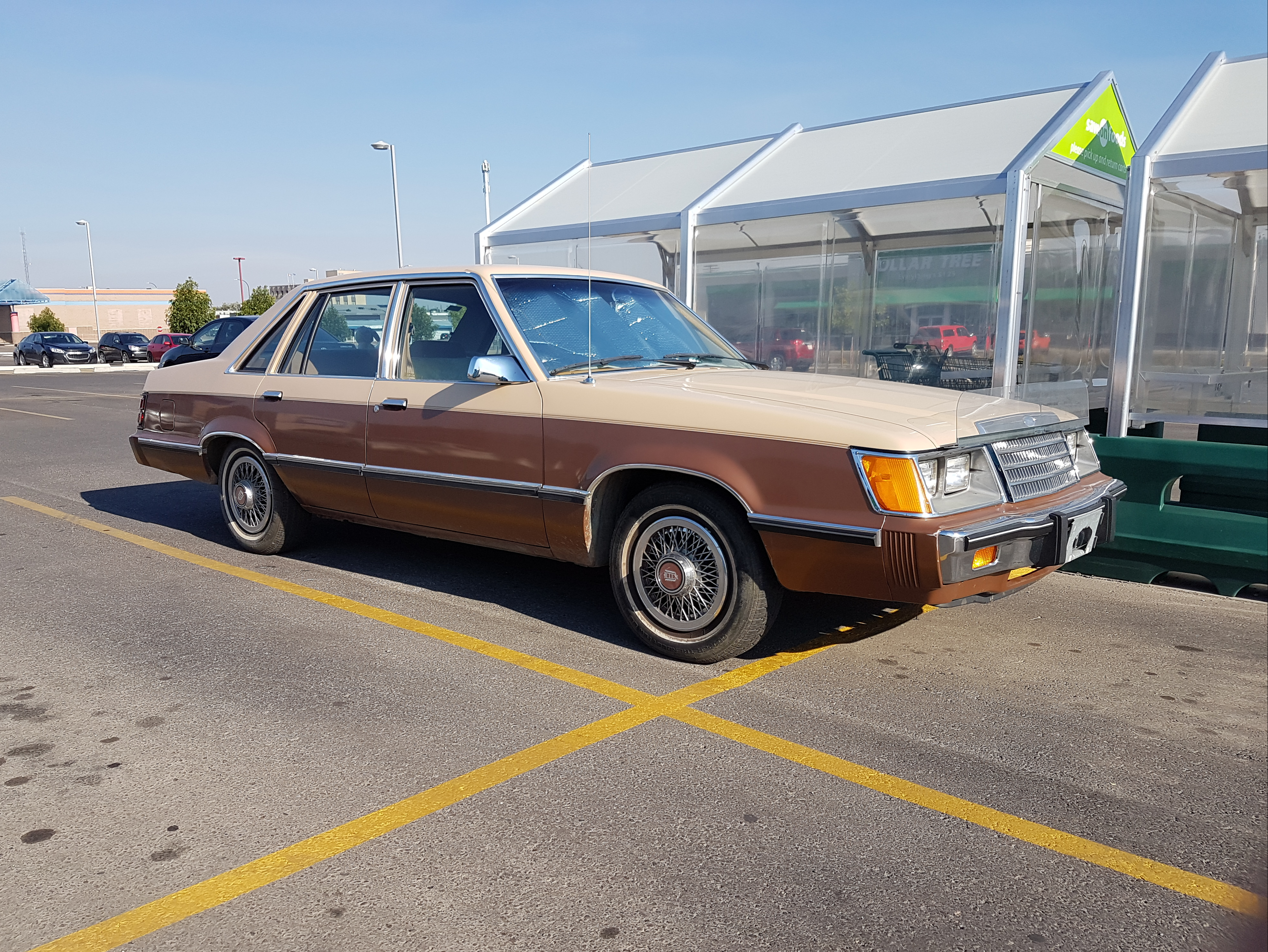 Fourth generation (1983 to 1986) Ford LTD in two tone brown.